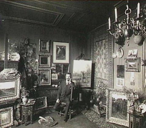 Portrait of the Dutch painter A.M. Gorter (1866-1933)